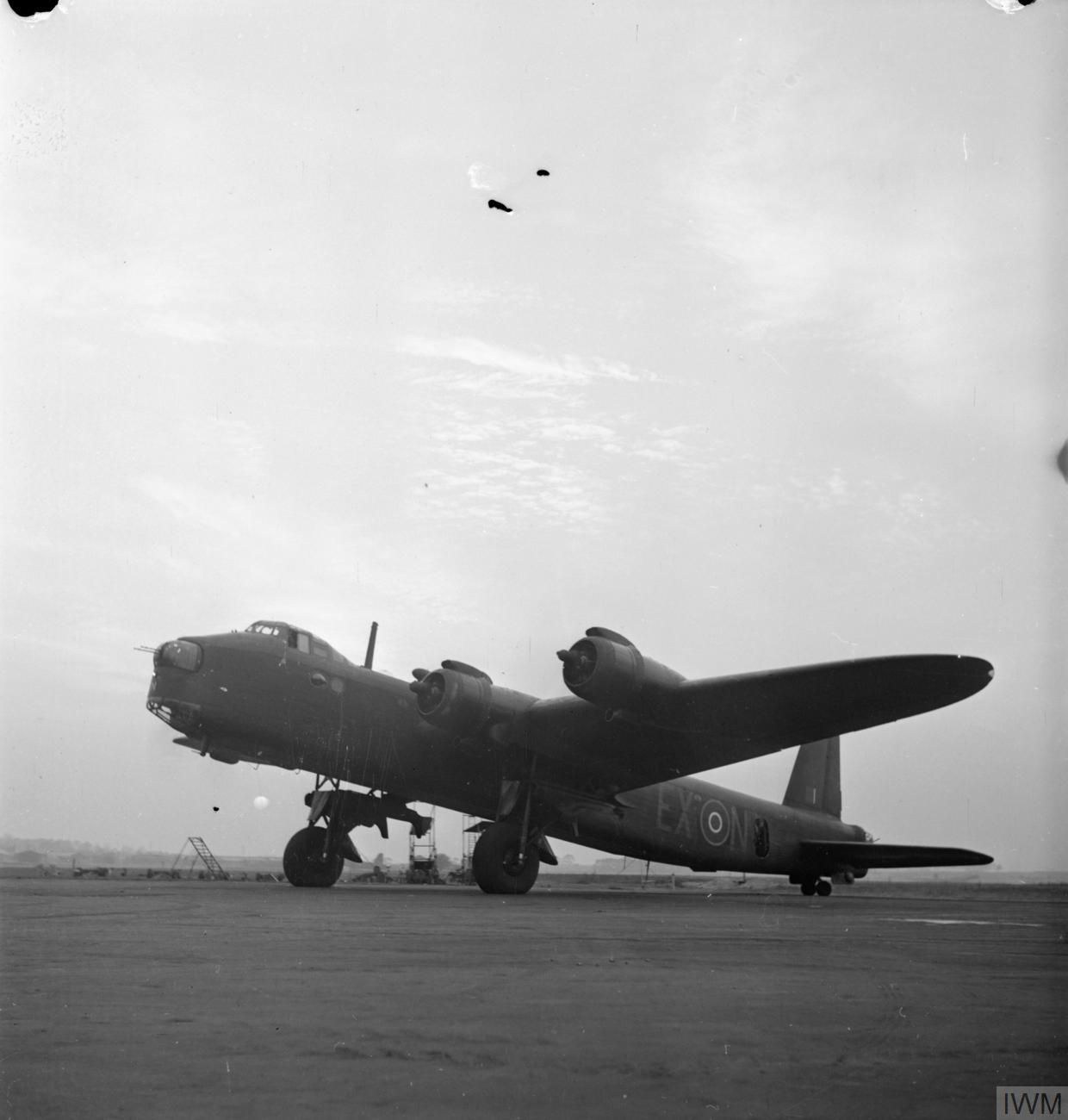 Aircraft of the Royal Air Force 1939-1945- Short S.29 Stirling. Stirling Mark III, EH930 ‘EX-N’, of No. 199 Squadron RAF, preparing to take off at Lakenheath, Suffolk, for a night-time minelaying operation off the Dutch coast.